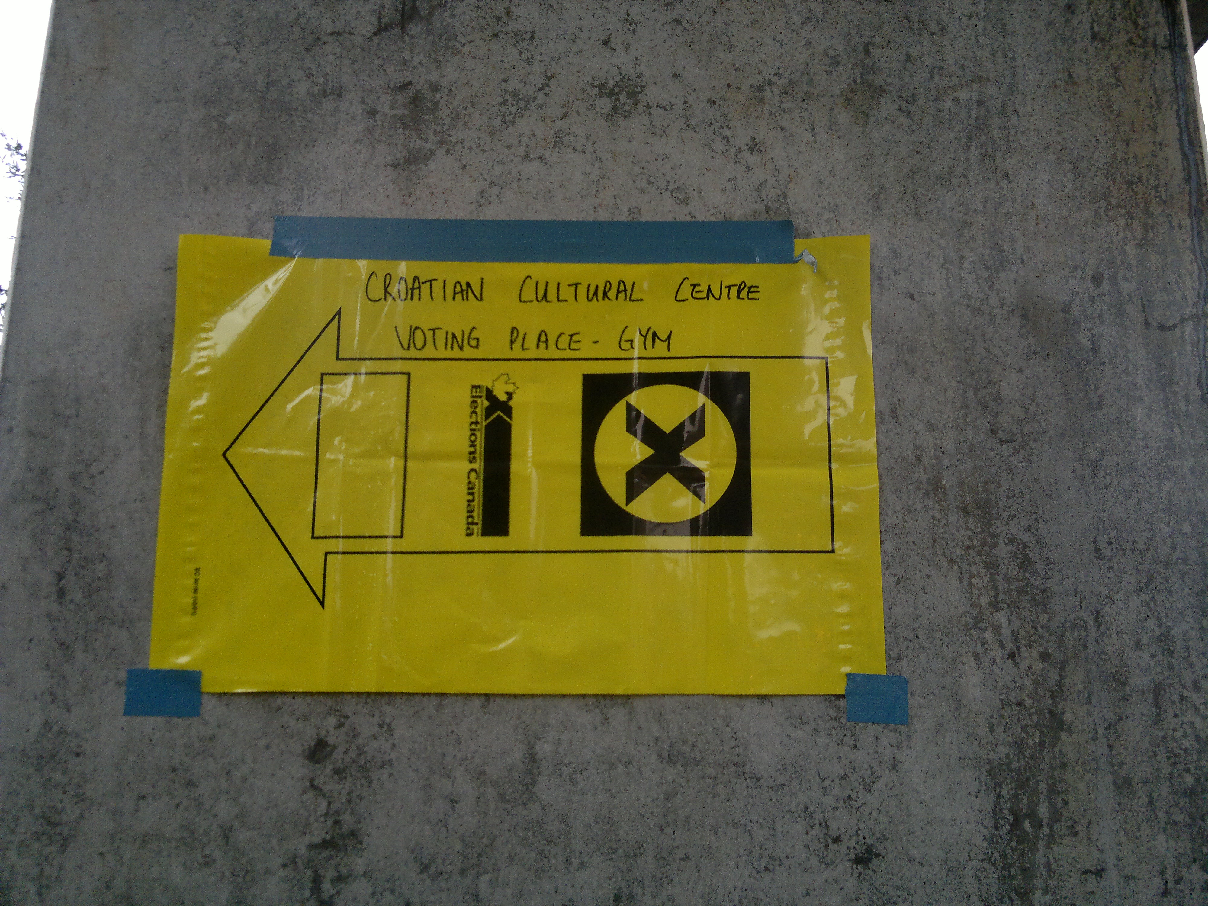 i voted at the pseudo-suburban splendor of the croatian cultural centre! go vote go! #elxn41 - 050220116552